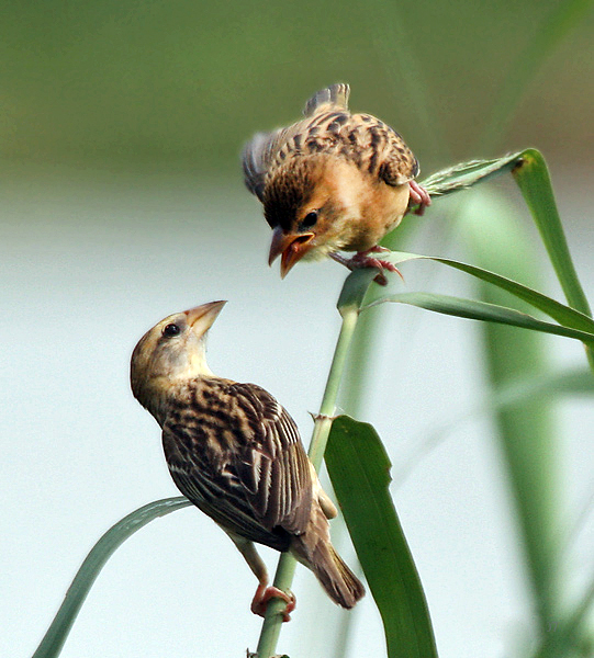 Baya Weaver Ploceus philippinus in Kolkata, West Bengal, India.